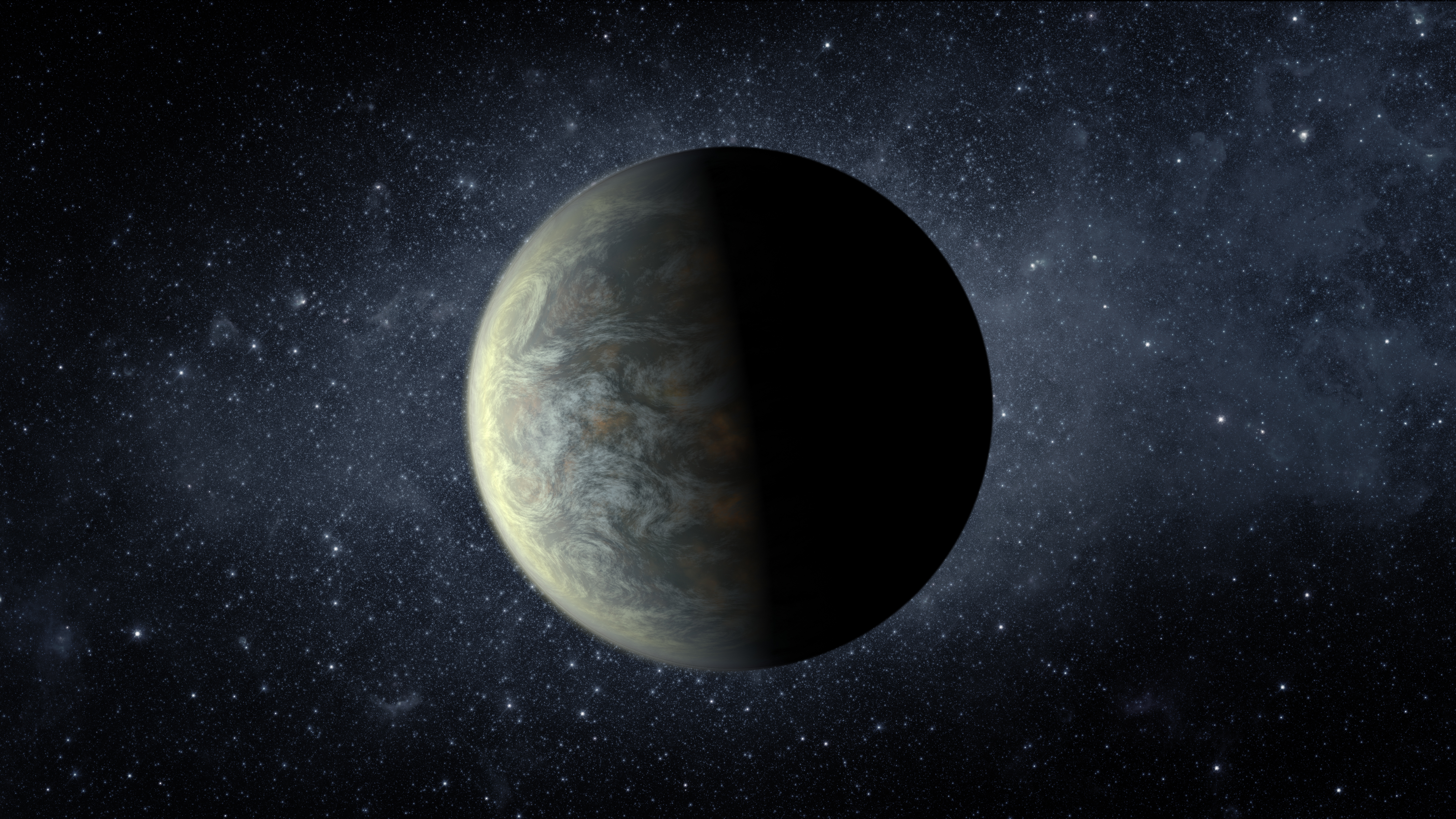 This is an artist's conception of Kepler-20f, the closest object to the Earth in terms of size ever discovered. With an orbital period of 20 days and a surface temperature of 800 degrees Fahrenheit, it is too hot to host life, as we know it.